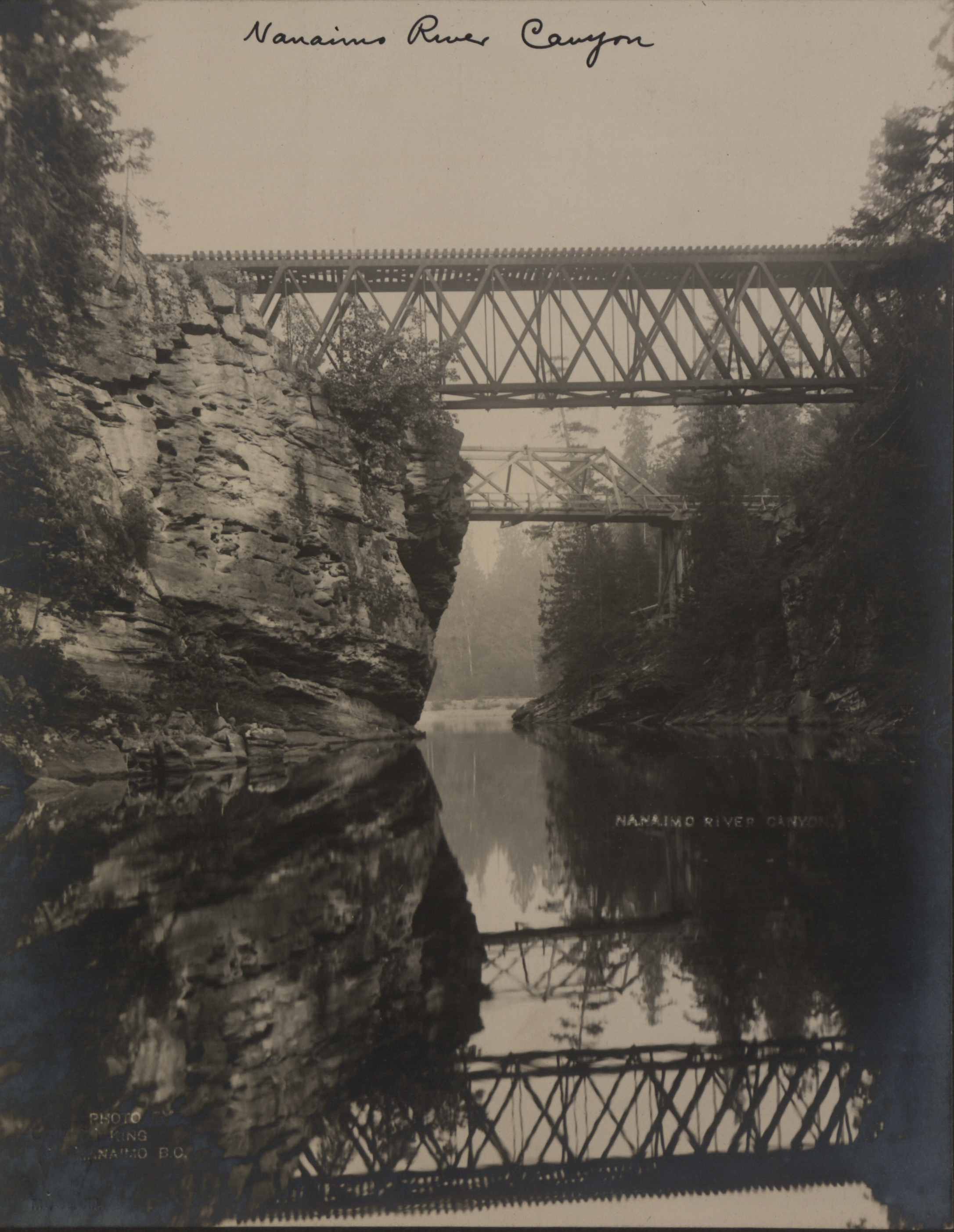 Original caption: “Nanaimo River canyon.”